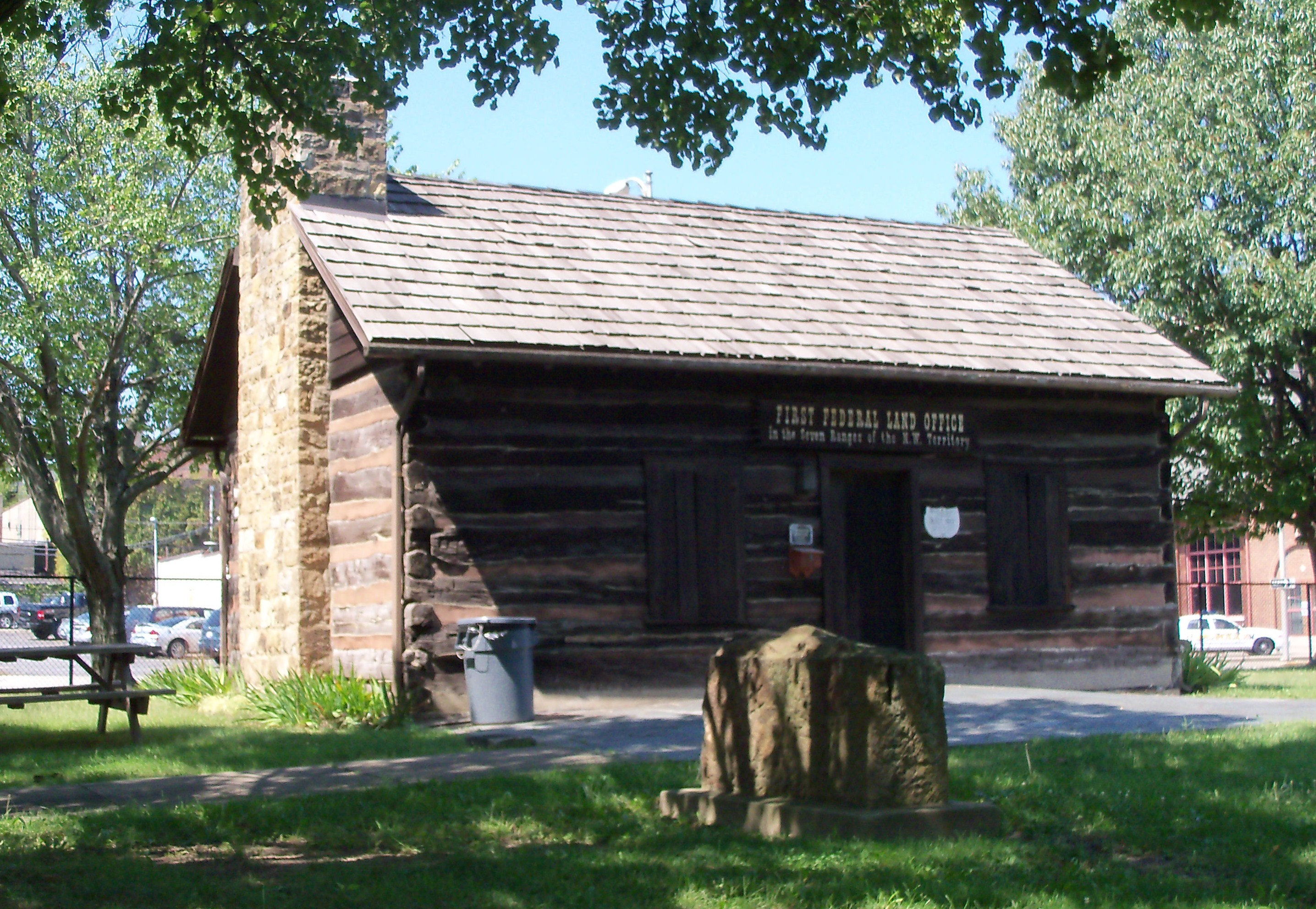 the Steubenville Land office sold lands in the Seven Ranges 1800-1840